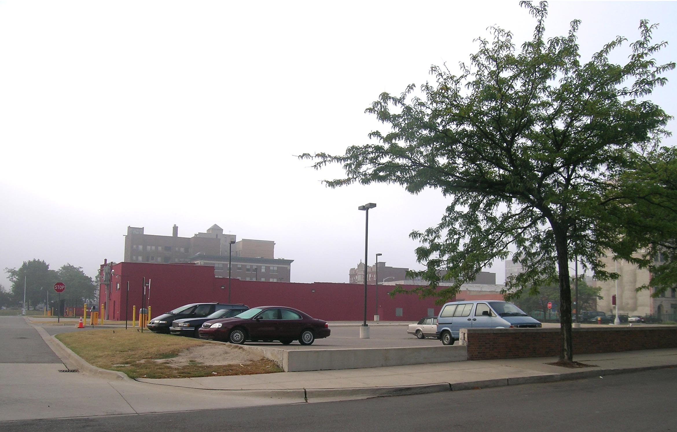 Parking lot at 123 Parsons in Detroit MI--former location of Robert M. and Matilda (Kitch) Grindley House